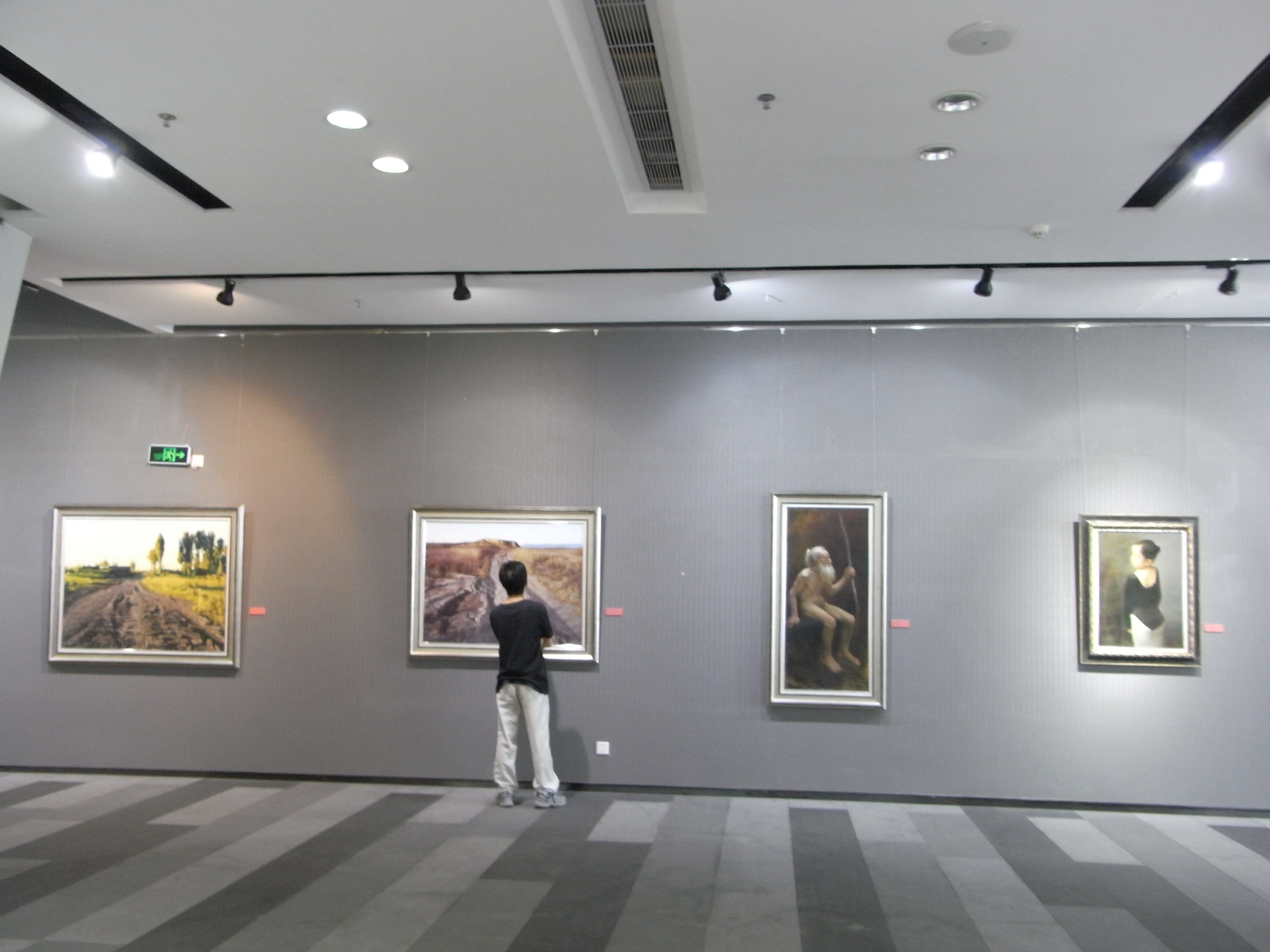 深圳龍崗區布吉街道大芬村美術館